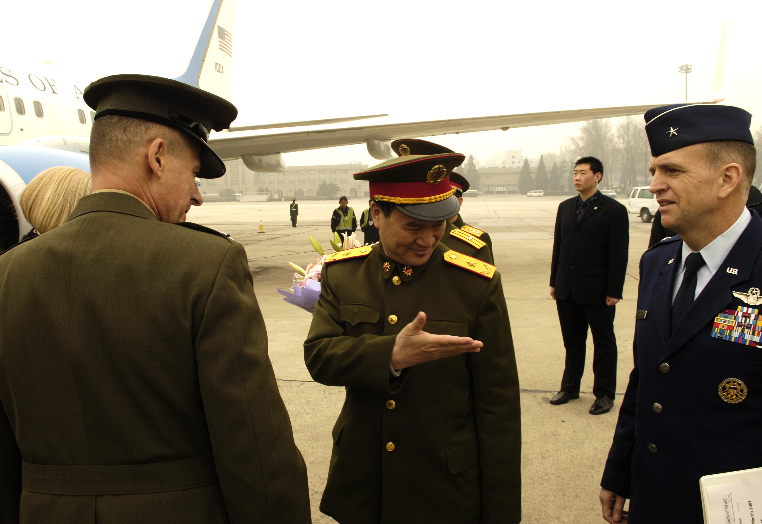 Chairman of the Joint Chiefs of Staff U.S. Marine Gen. Peter Pace is introduced to the American Air Attache to China, Brig Gen. Ralph Jodice, upon his arrival to Beijing, March 22, 2007.